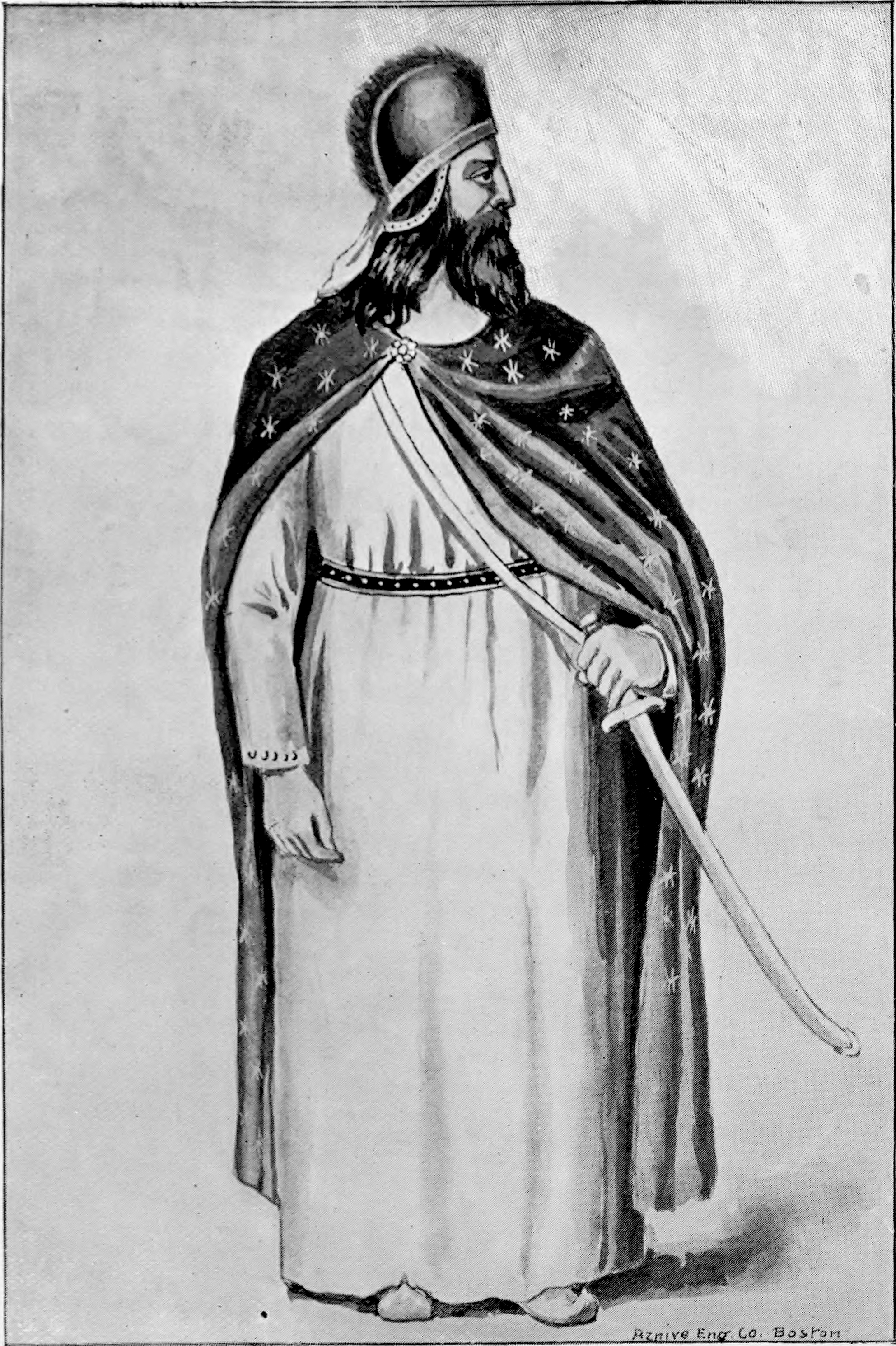 Illustrated Armenia and Armenians, facing page 93